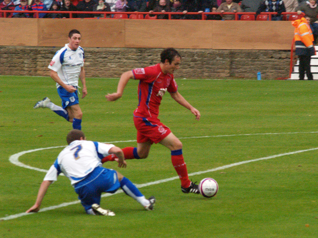 Photo of Danny Hylton, English footballer during an Aldershot Town v. Bury match on 4 October 2008.